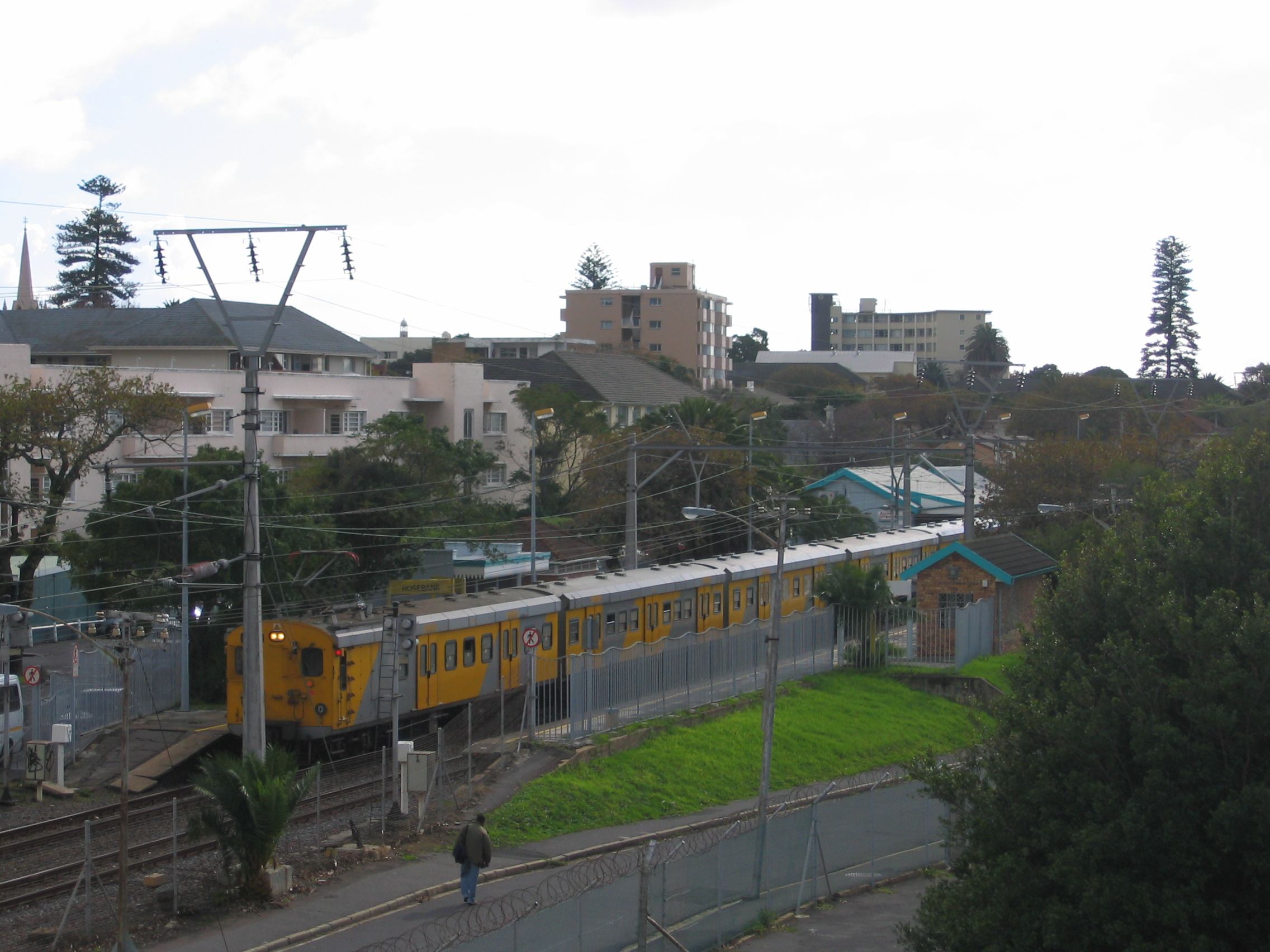 A view of Rosebank Metrorail station in Rosebank, Cape Town with northbound train 0156, the class 5M2A EMU trainset D, at Platform 1.